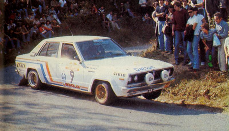 Timo Salonen and co-driver Seppo Harjanne on a Datsun 160J at the 1979 Rallye Sanremo.